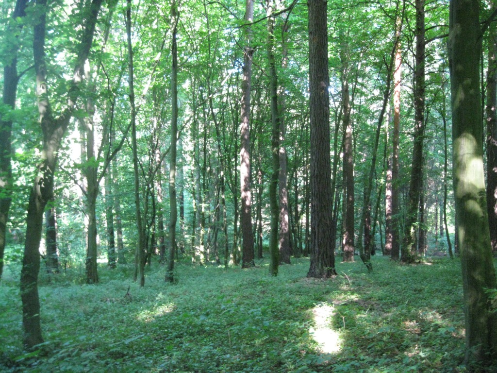 Urochische Kruglyk